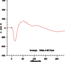 Electroretinogram waveform from a dark-adapted normal subject recorded using the ISCEV "standard flash"